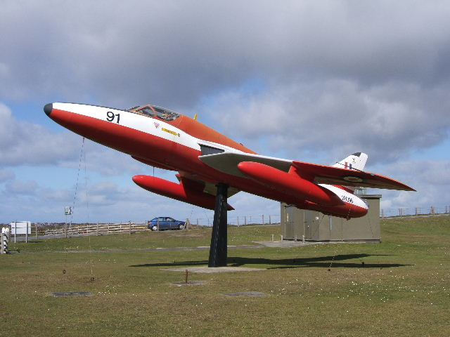 Gate Guardian of RAF Valley Hawker Hunter WV396 was built for the RAF as an F4, it took its first flight in August 1955, and was delivered to the RAF a month later.